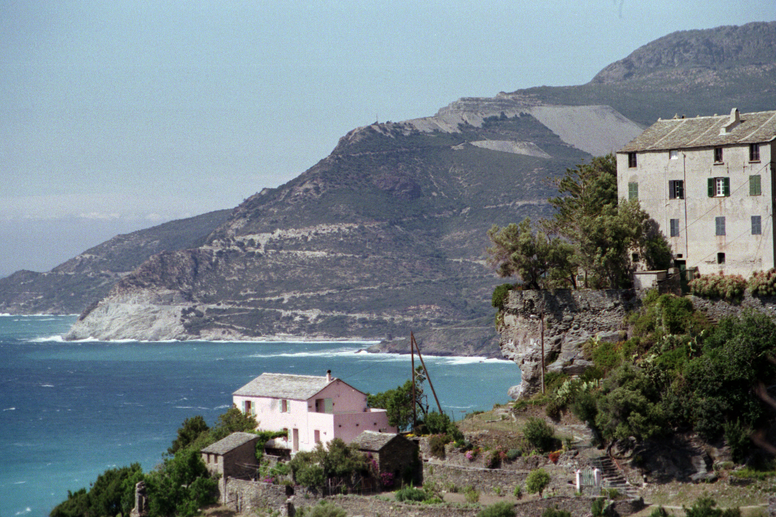 Northern Corsica